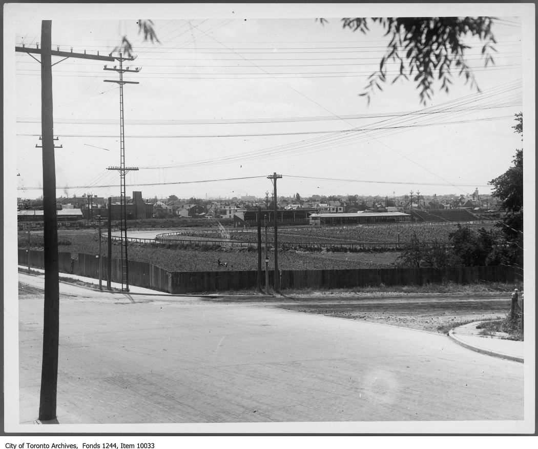 View of Hillcrest Park racetrack in Toronto